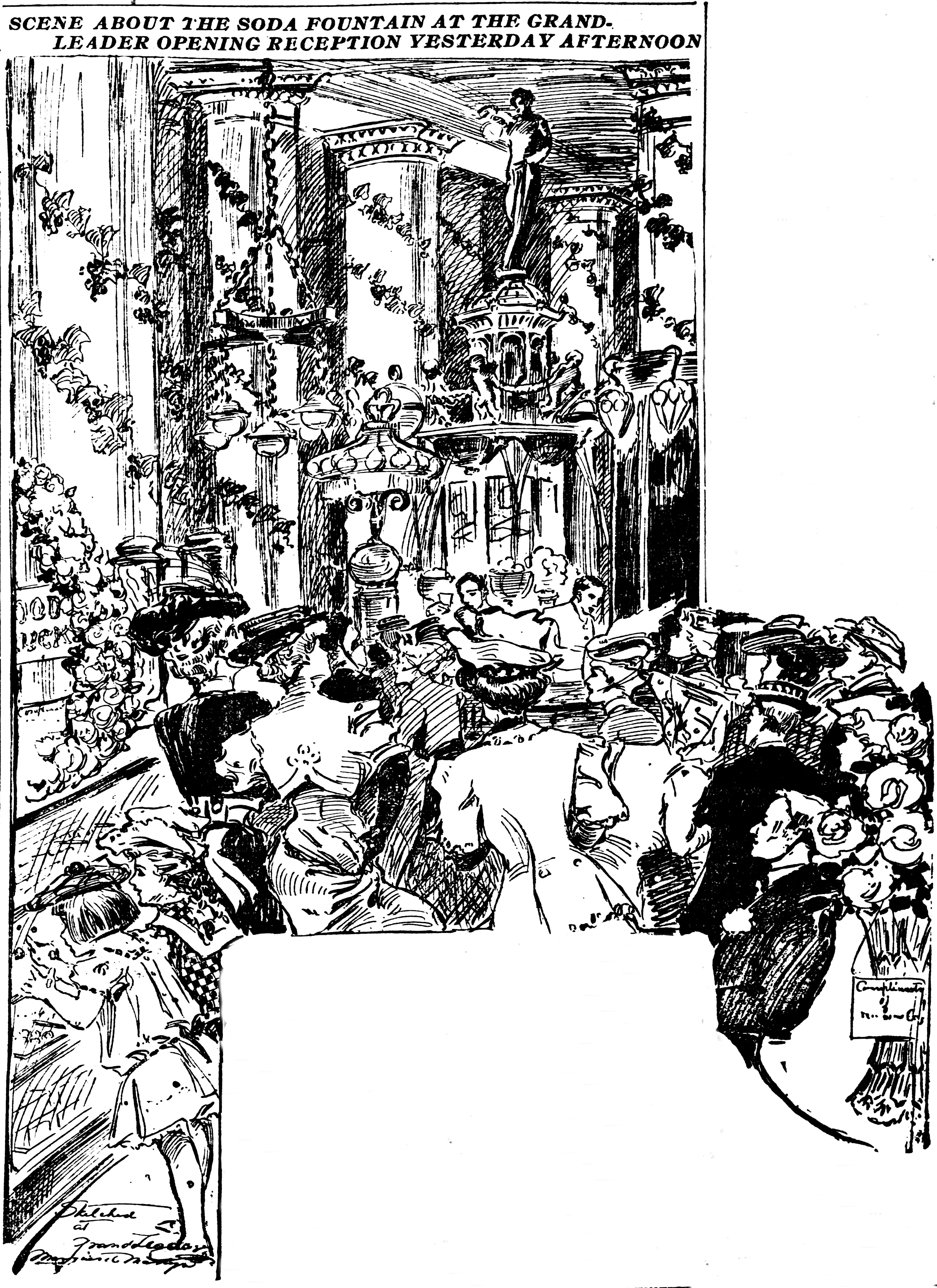 Sketch from life by Marguerite Martyn of the opening of the Grand-Leader department store in St. Louis on September 8, 1906. Shows crowd, decorations, interior ornamentation and children at corner looking at display case. Includes headline.